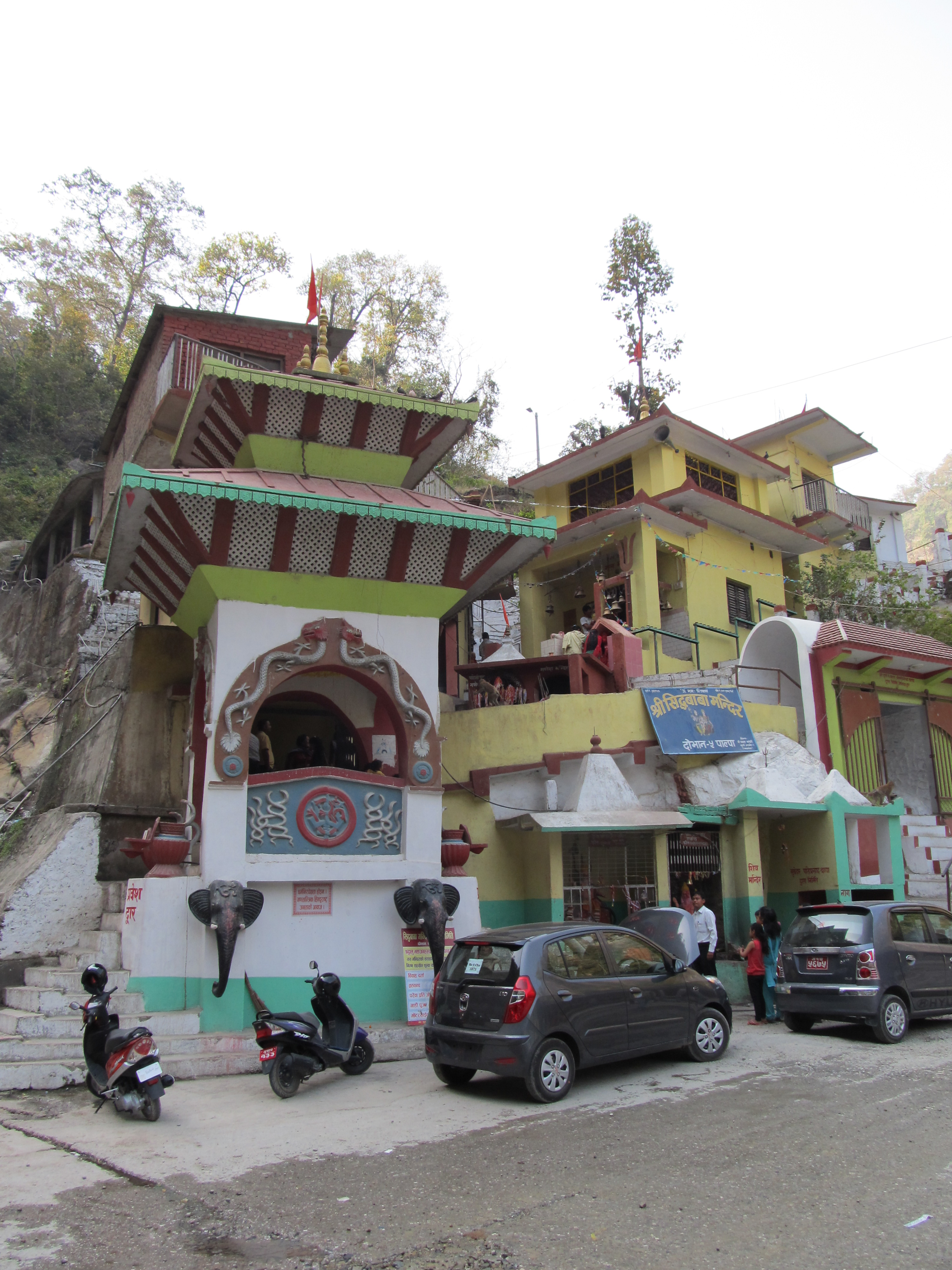 Siddhababa Temple north of Butwal